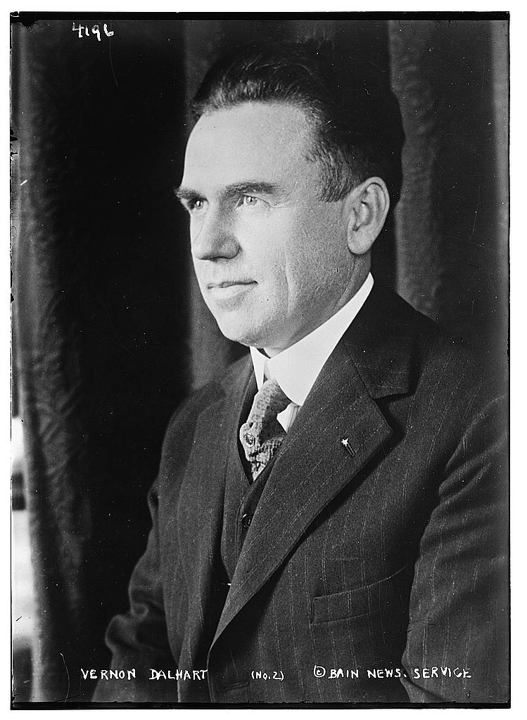 Photograph shows singer and songwriter Vernon Dalhart (1883-1948) with his sheet music for "Rock-a-Bye Your Baby with a Sweet Dixie Melody" which he recorded in 1918. (Source: Flickr Commons project, 2015)